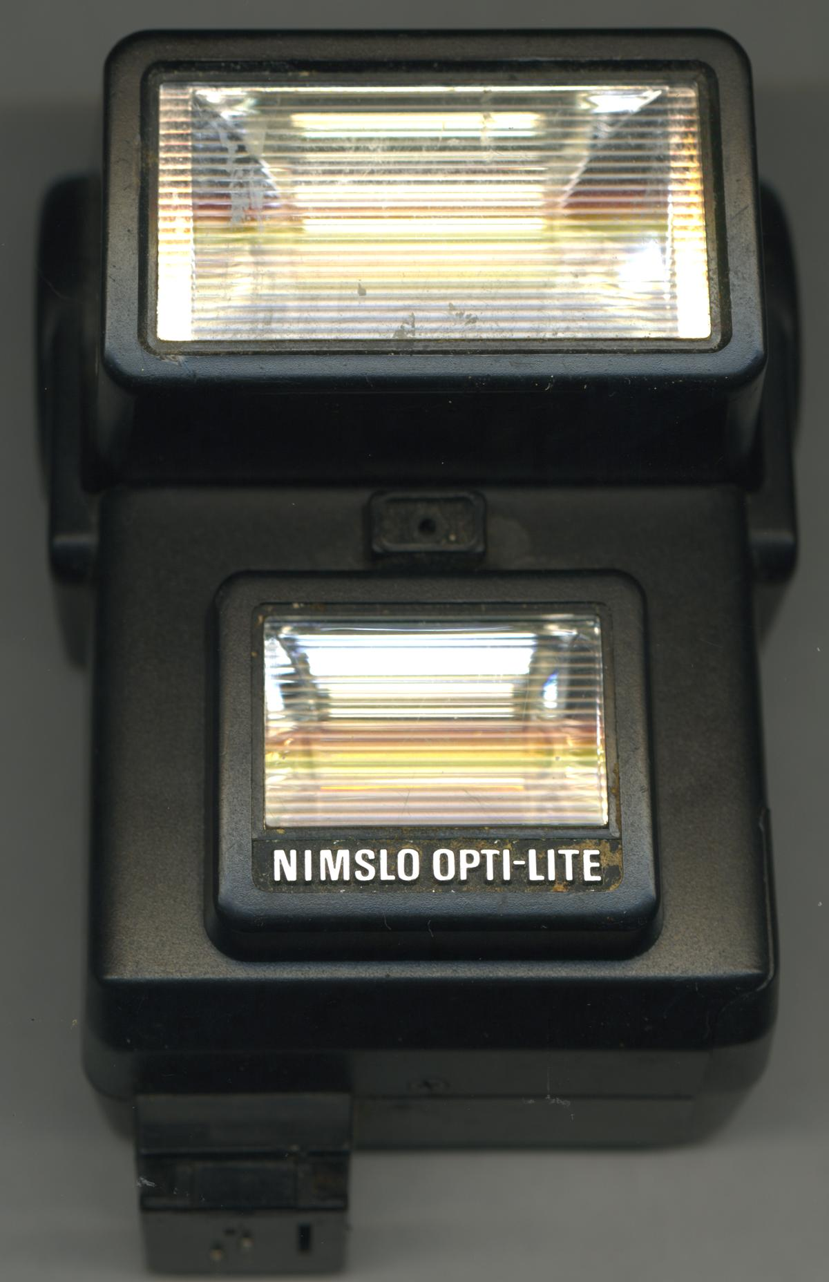 The Nismslo Optilite flash from 1980. (after being stored for a number of years under less than ideal conditions)